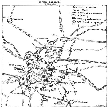 Scheme of the defences of the city of Lwów during the Battle of Lwów (1939).